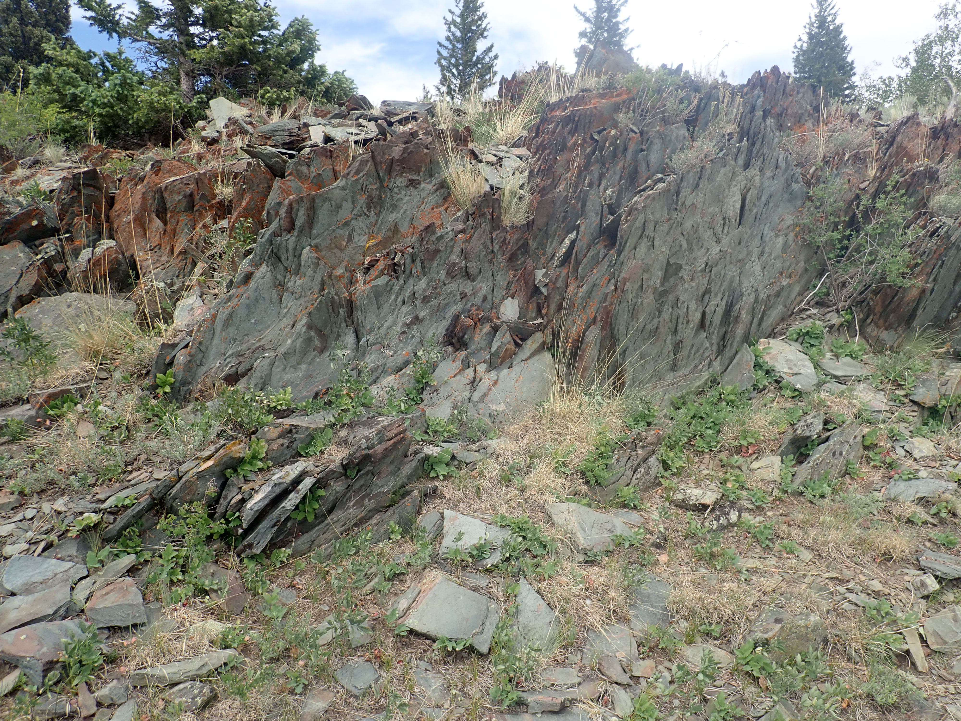 This image shows outcrops of the Moppin Complex at Iron Mountain (local name), one of the reference sections for the complex. The Moppin Complex is at least 1.755 billion years old and is interpreted as metamorphosed basalt of an island arc that merged with North America aroun 1.69 billion years ago to form the Yavapai Province.